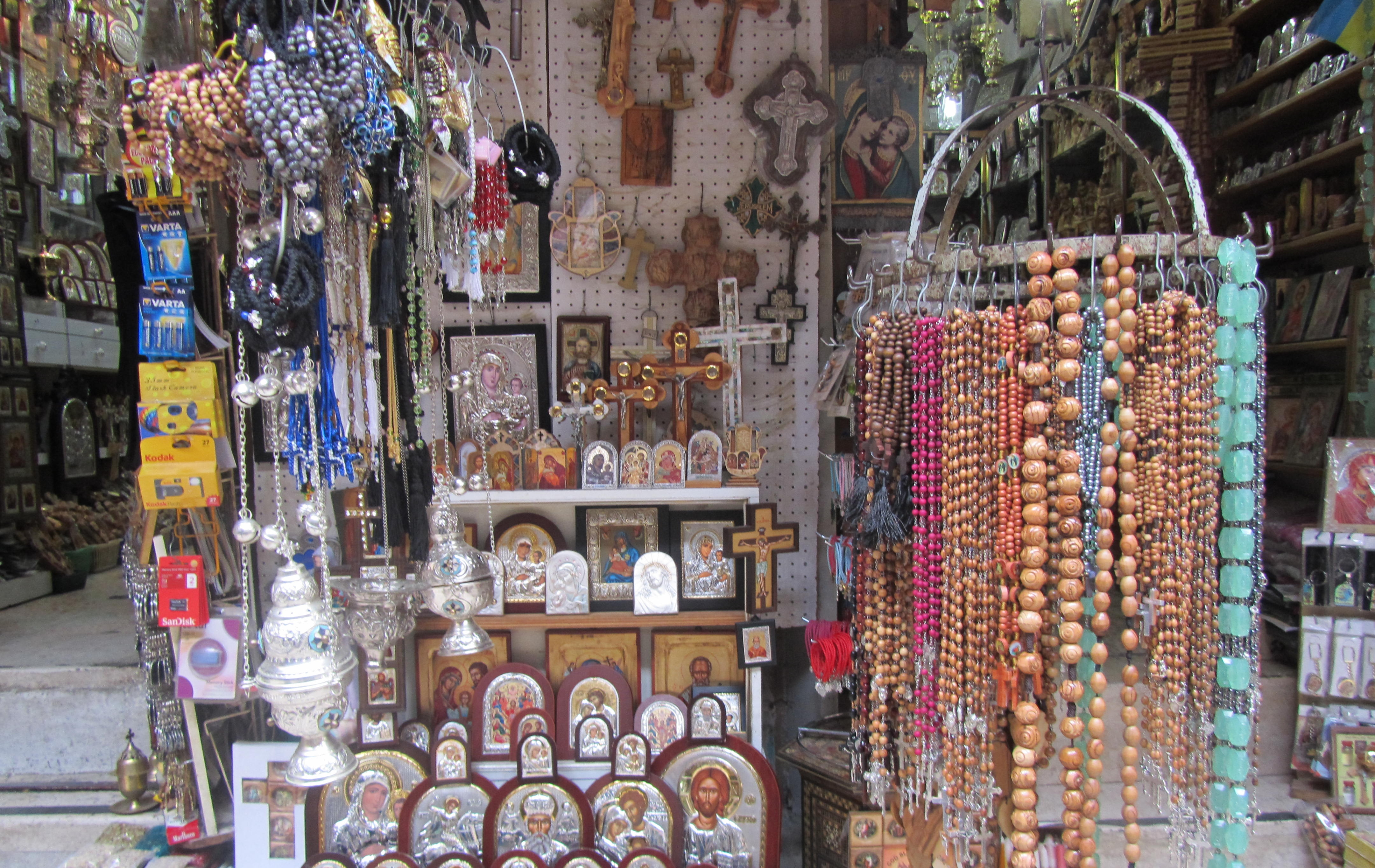 Old Jerusalem, St Helena street, Devotional souvenir shop near Holy Sepulchre Church